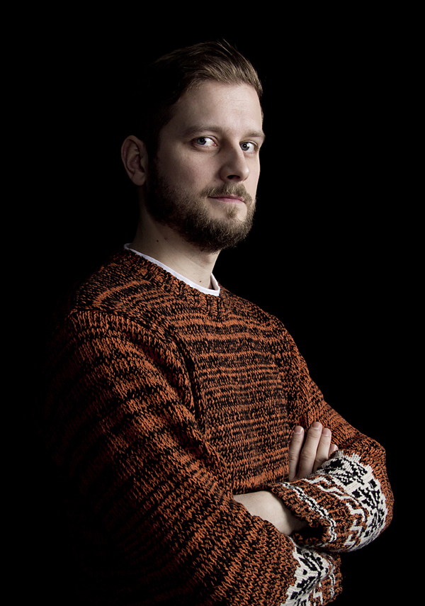 Finnish comic artist Joonas Lehtimäki.